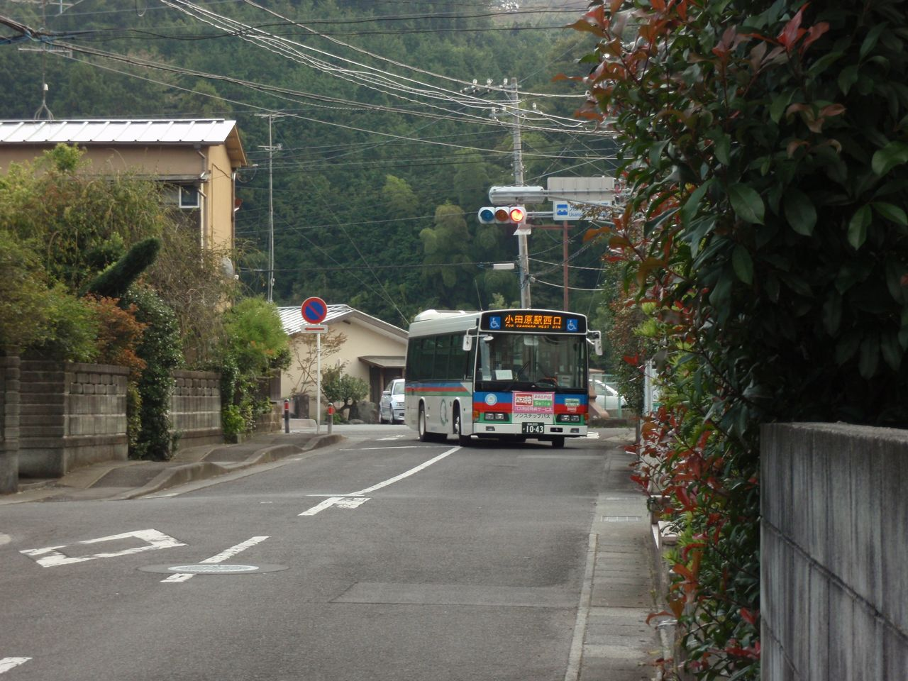 Izuhakone Bus that runs in Odawara City.